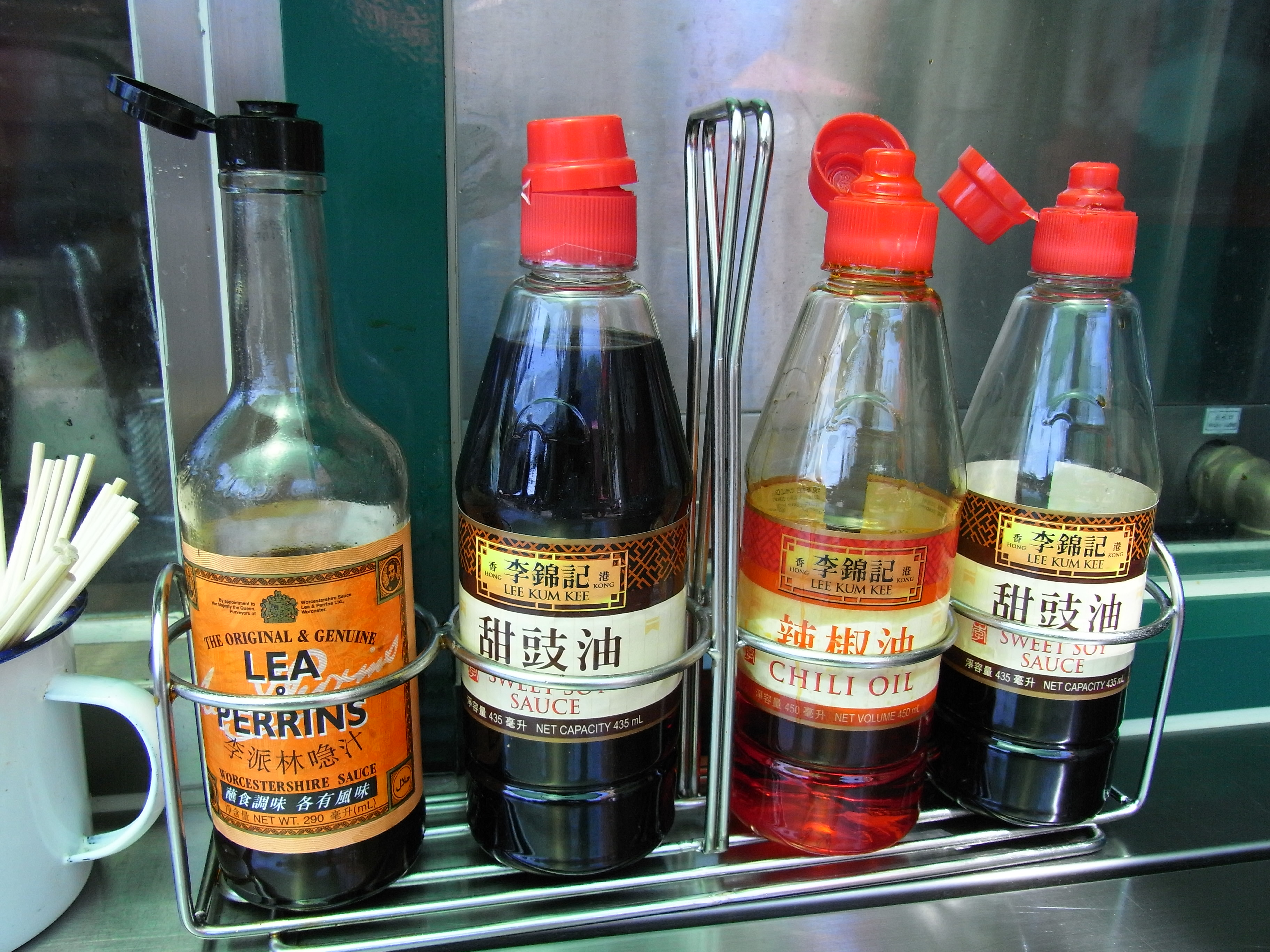 海洋公園, Ocean Park, Hong Kong